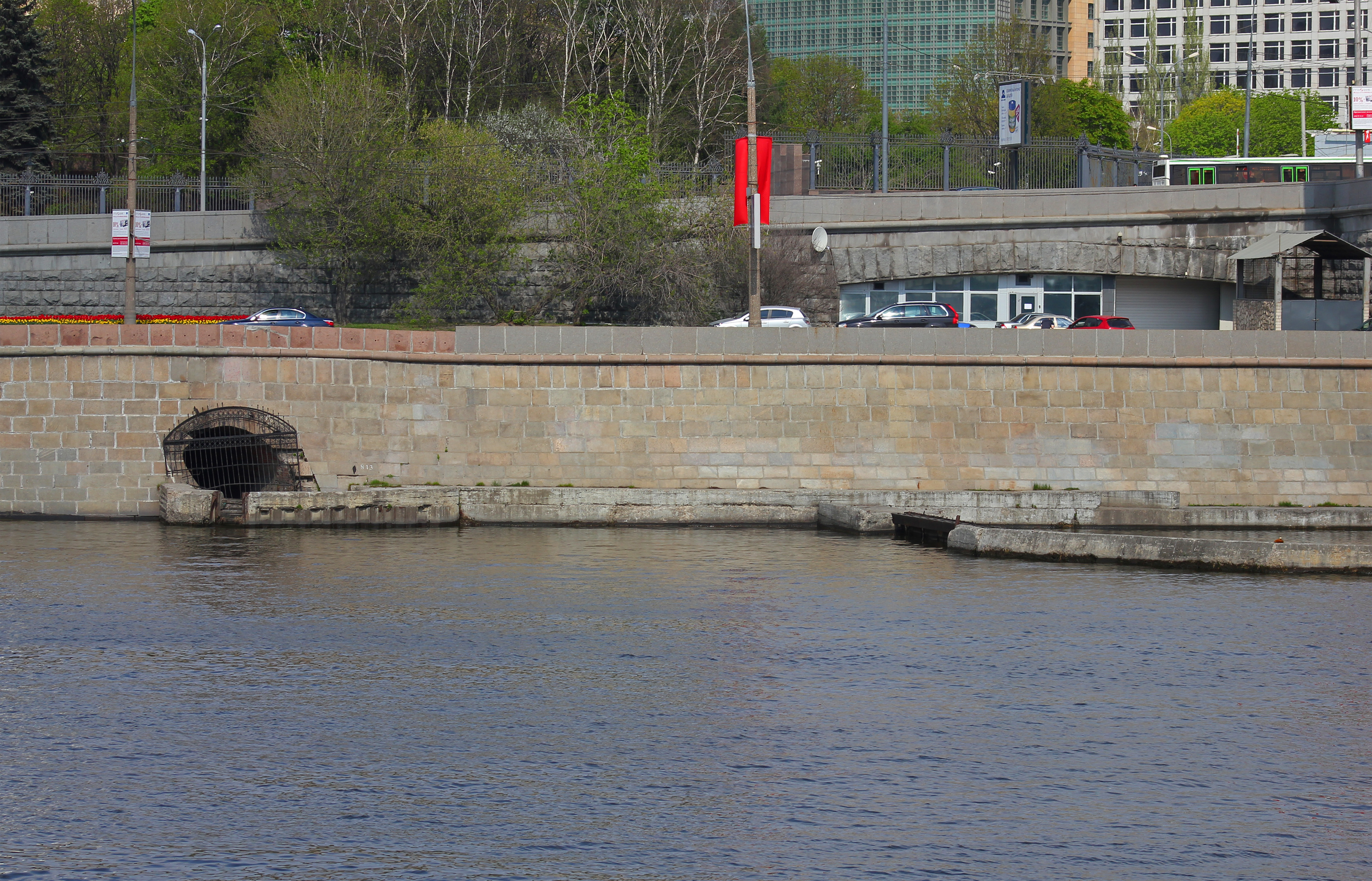 The mouth of the Presnya River (today completely in an underground collector) into the Moskva River